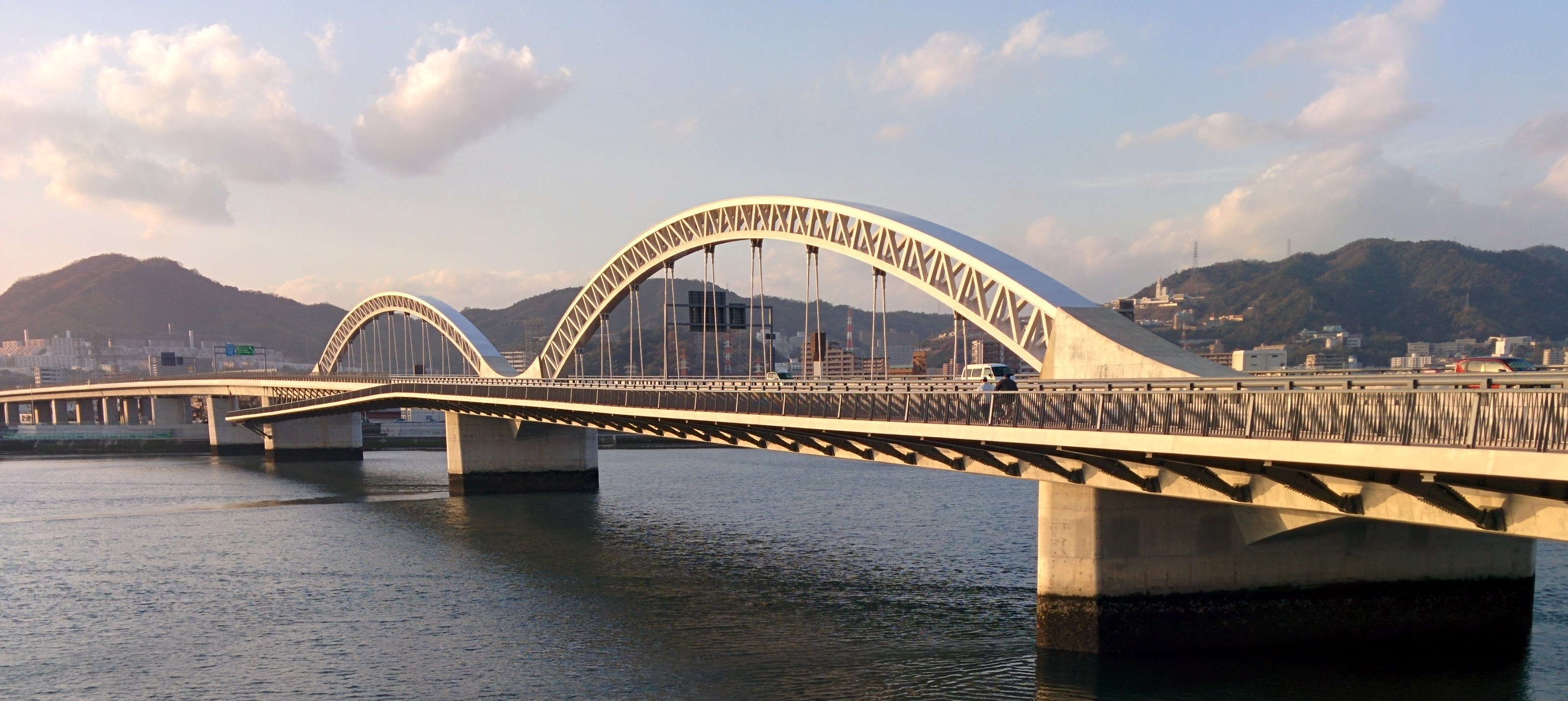 Ota River Bridge, Hiroshima, sunset in December 2015 taken from the south side of the bridge on the east bank of the Ota River.